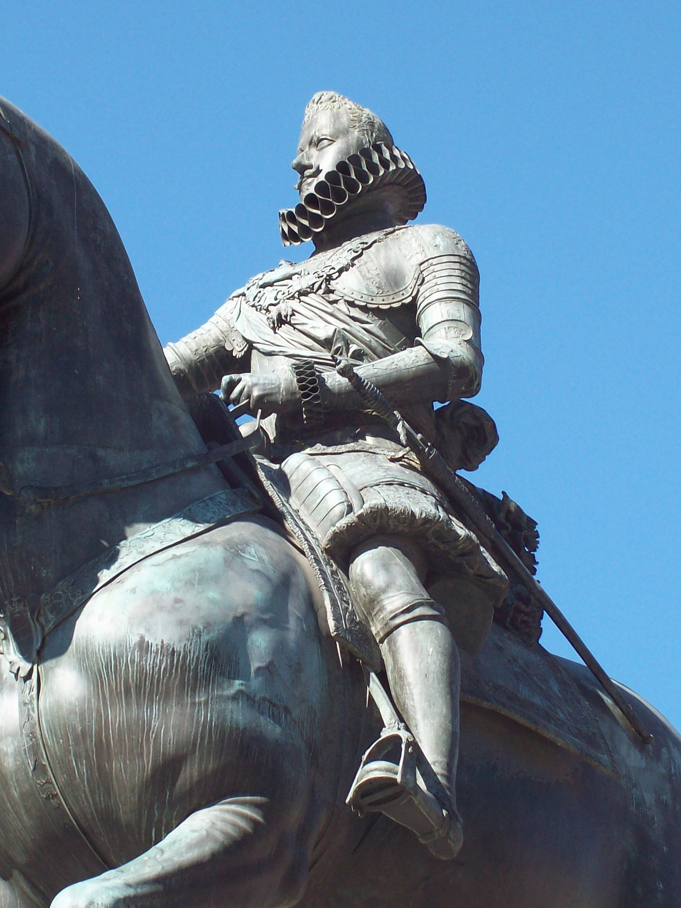 Bronze equestrian statue of Philip III of Spain in Madrid.